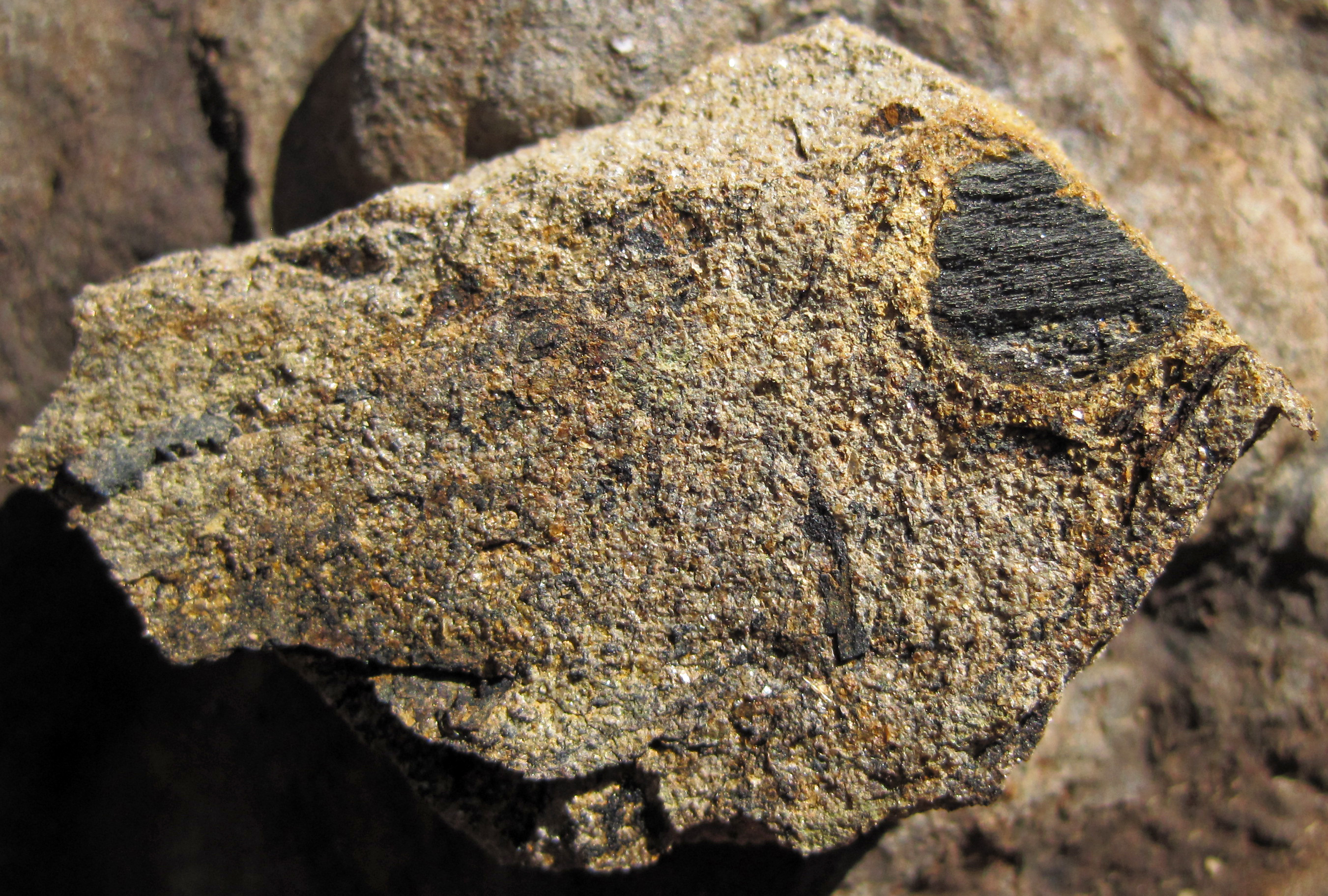 Fossil charcoal in sandstone from the Pennsylvanian of Ohio, USA. (~3.8 cm across at its widest) This fossiliferous rock sample is from the Pottsville Group of eastern Ohio. The Pottsville Group is a Pennsylvanian-aged cyclothemic succession containing nonmarine shales, marine shales, siltstones, sandstones, coals, marine limestones, and chert ("flint"). The lower Pottsville dates to the late Early Pennsylvanian. The upper part dates to the early Middle Pennsylvanian. The Lower-Middle Pennsylvanian boundary is apparently somewhere near the Boggs Limestone horizon (?). This is a small sample of muscovitic quartz sandstone with a piece of fossil charcoal (= black-colored chunk at upper right). The Pennsylvanian was a time of relatively high atmospheric oxygen (O2) levels, and forest fires were relatively common events. Charcoalized fossil wood can be found in some abundance in Pennsylvanian sedimentary successions. The original wood microstructure is usually well preserved, but the charcoal fragments themselves are quite delicate. A gentle rub with a finger turns these fragments into black powder. Stratigraphy: float from Pottsville Group, Middle Pennsylvanian (loose piece was found below the Lower Mercer Limestone & above the Boggs Limestone) Locality: creek cut along the northern banks of Symmes Creek, just upstream from Mollies Rock Road bridge & just upstream from the North Branch/North Fork-Symmes Creek confluence, Madison Township, northern Muskingum County, Ohio, USA